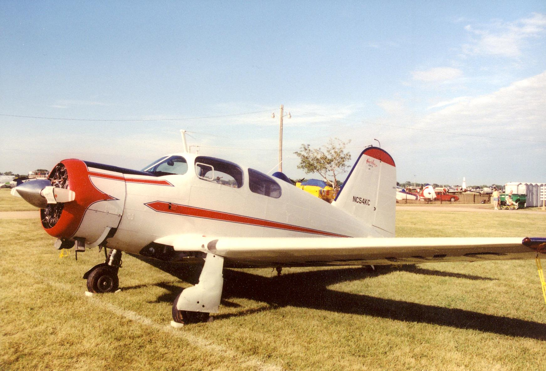 Harlow PJC-2 N54KC at Oshkosh 2001